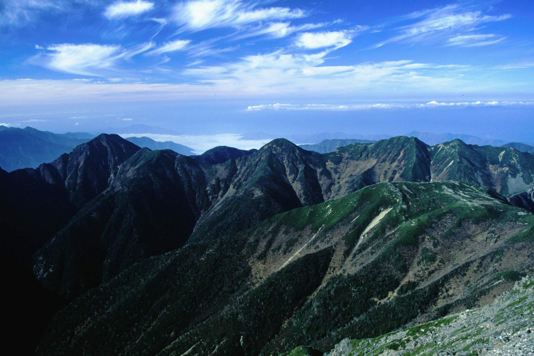 Mount Usagi, Mount Nakamorimaru and Mount Ōsawa seen from Mount Akaishi in Akaishi Mountains, Japan.